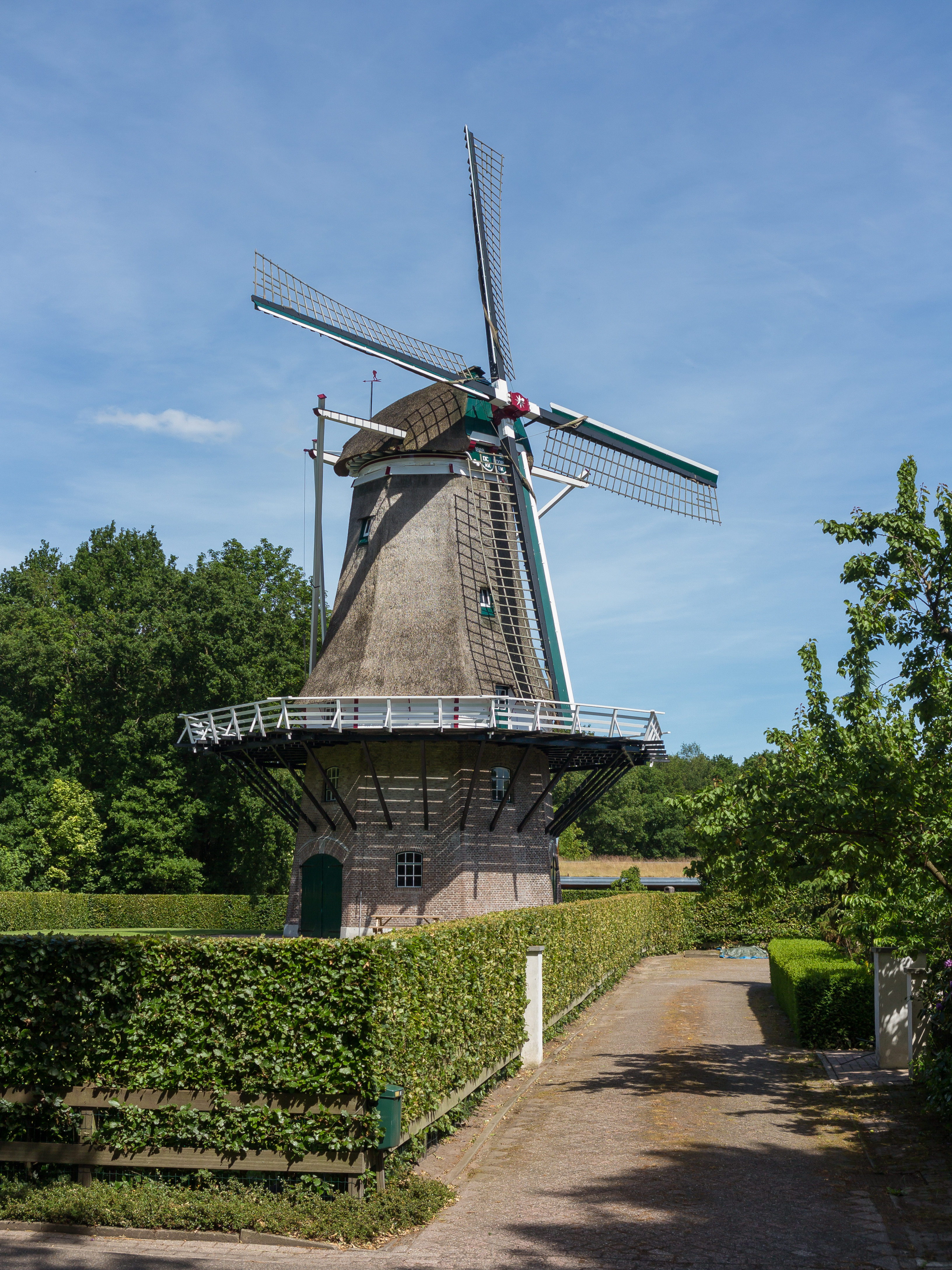 Appel, windmill: korenmolen de Hoop